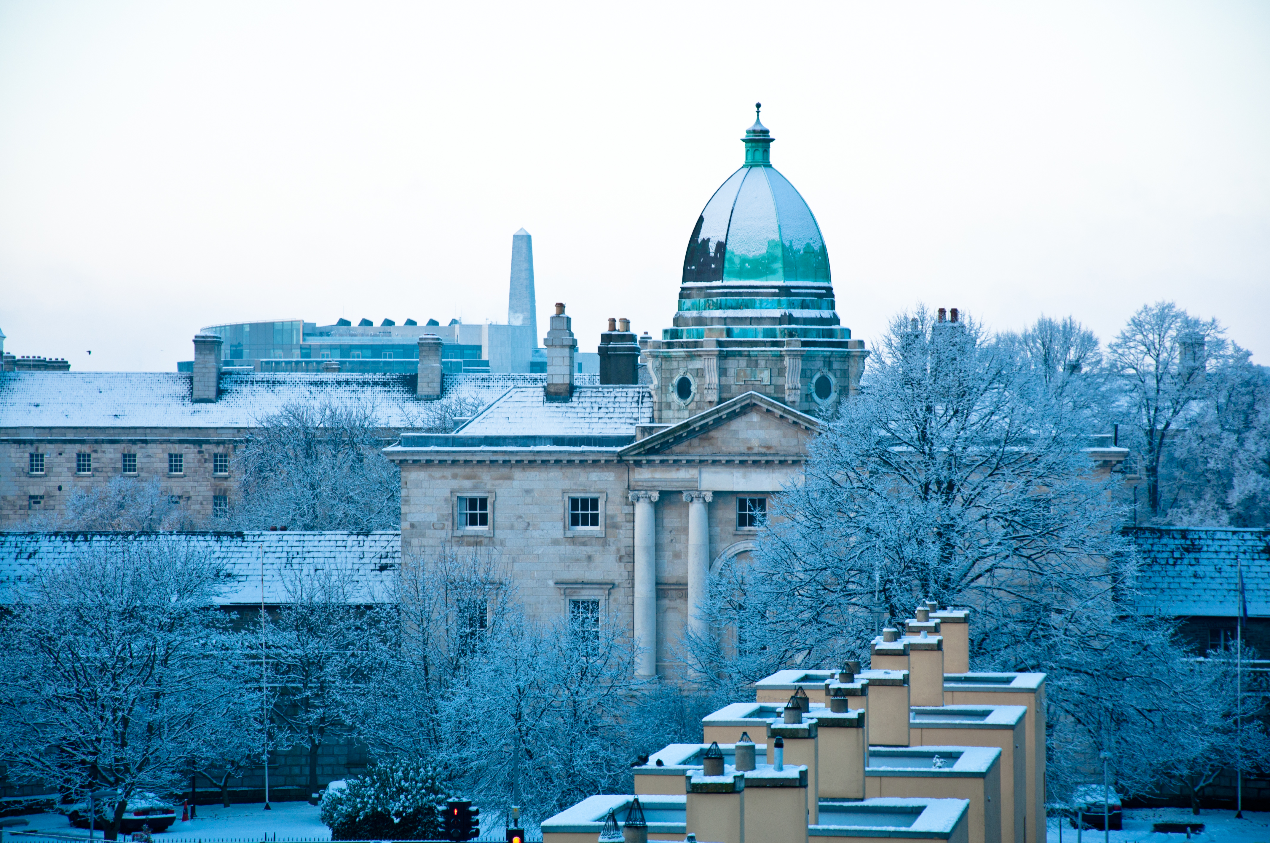 Dublin Law Society after 28 November 2010 snowstorm Photo was made with Nikon D90.